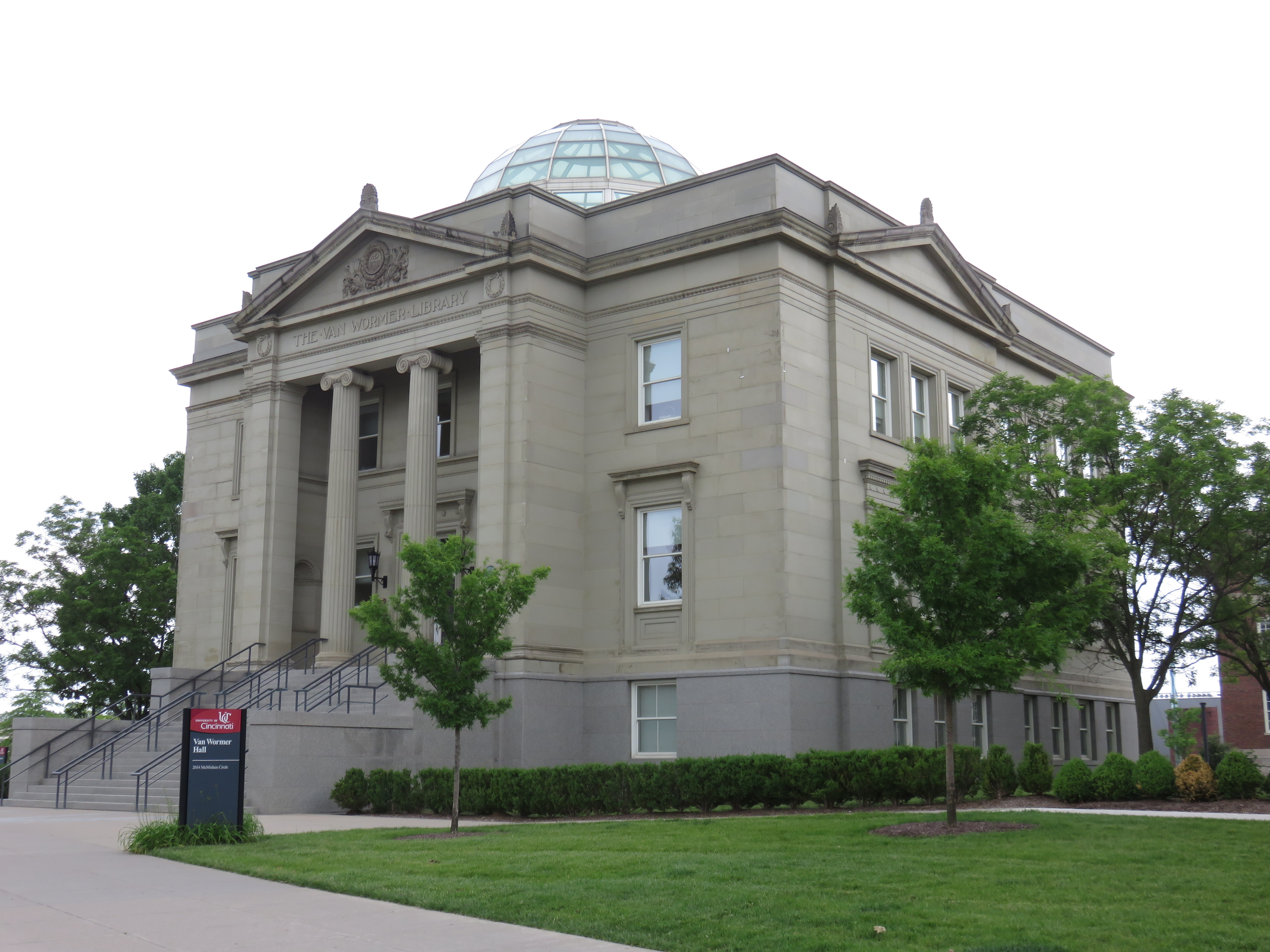 Van Wormer Hall at the University of Cincinnati in 2017